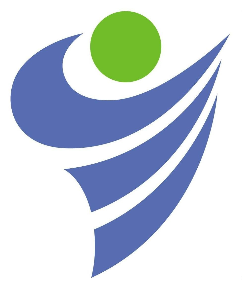 Yosano Kyoto chapter